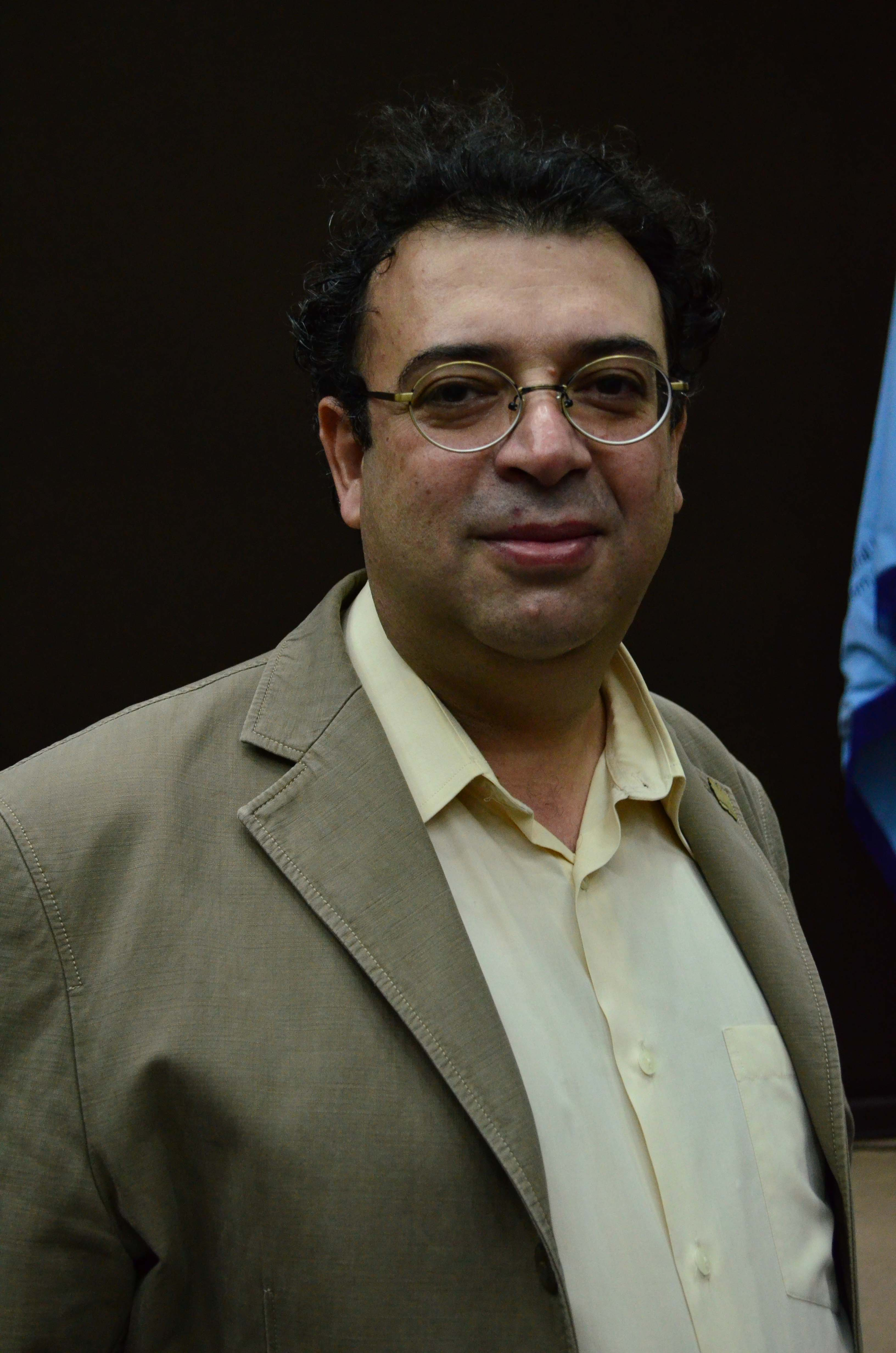 Mehrdad Malekzadeh